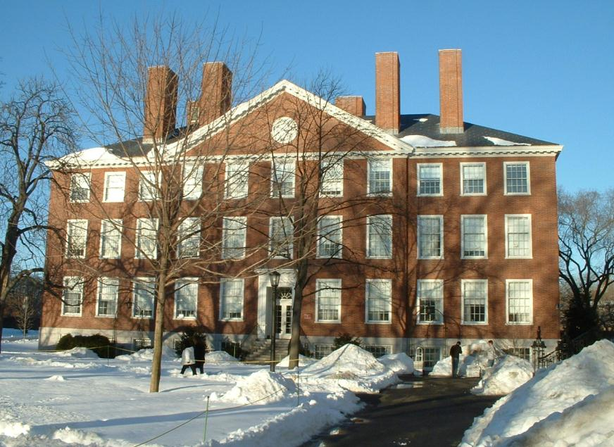 Byerly Hall at Radcliffe College in Winter 2003. I took the picture and release it to the public domain. Lubos Motl, Lumidek